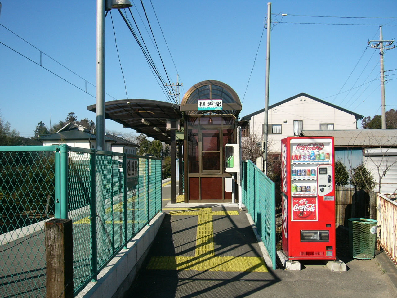 Higoshi Station